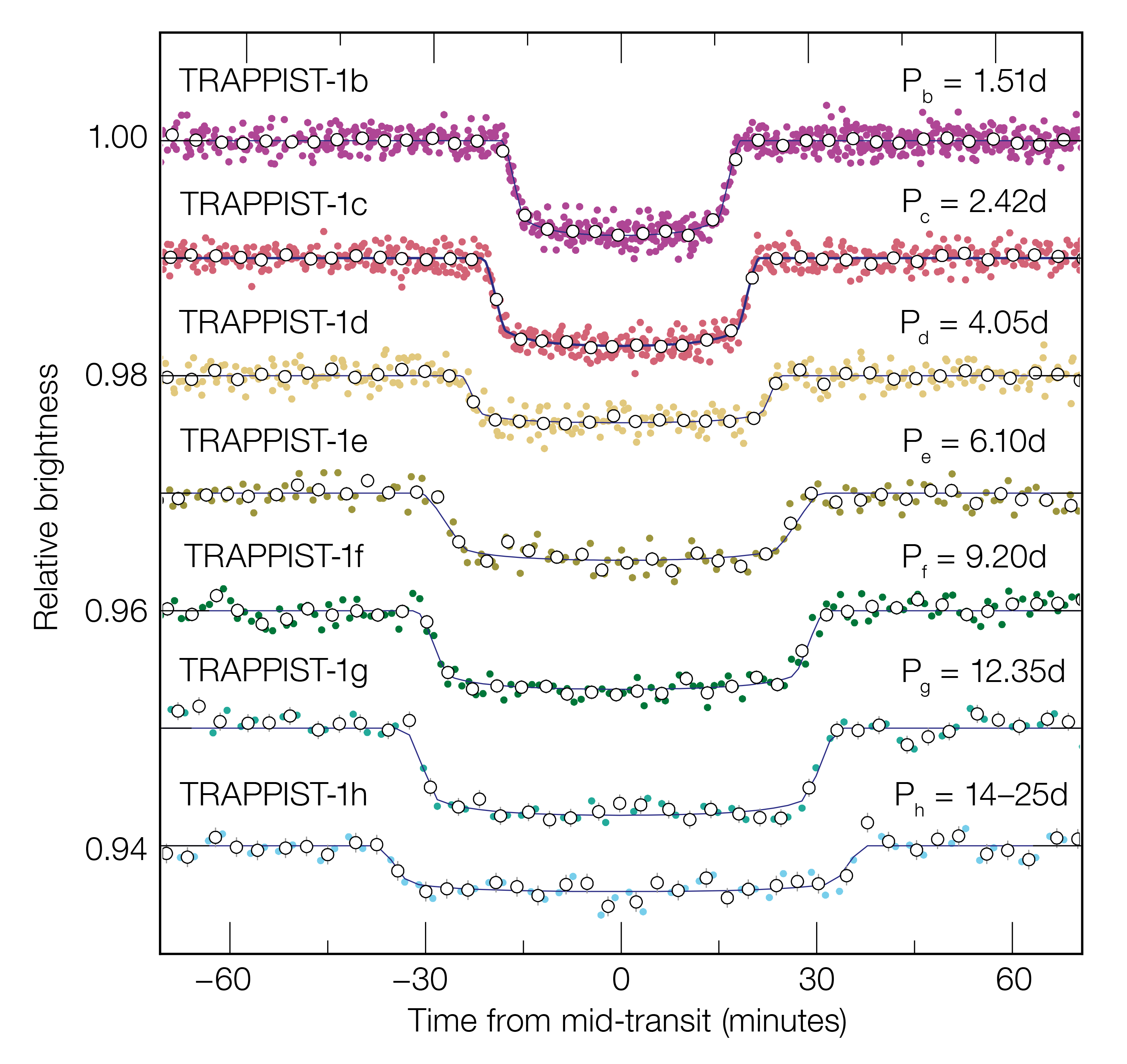 This diagram shows how the light of the dim red ultra cool dwarf star TRAPPIST-1 fades as each of its seven known planets passes in front of it and blocks some of its light. The larger planets create deeper dips and the more distance ones have longer lasting transits as they are orbiting more slowly. These data were obtained from observations made with the NASA Spitzer Space Telescope.